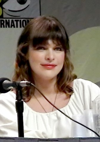 Milla Jovovich at Comic Con 2007 promoting Resident Evil: Extinction.